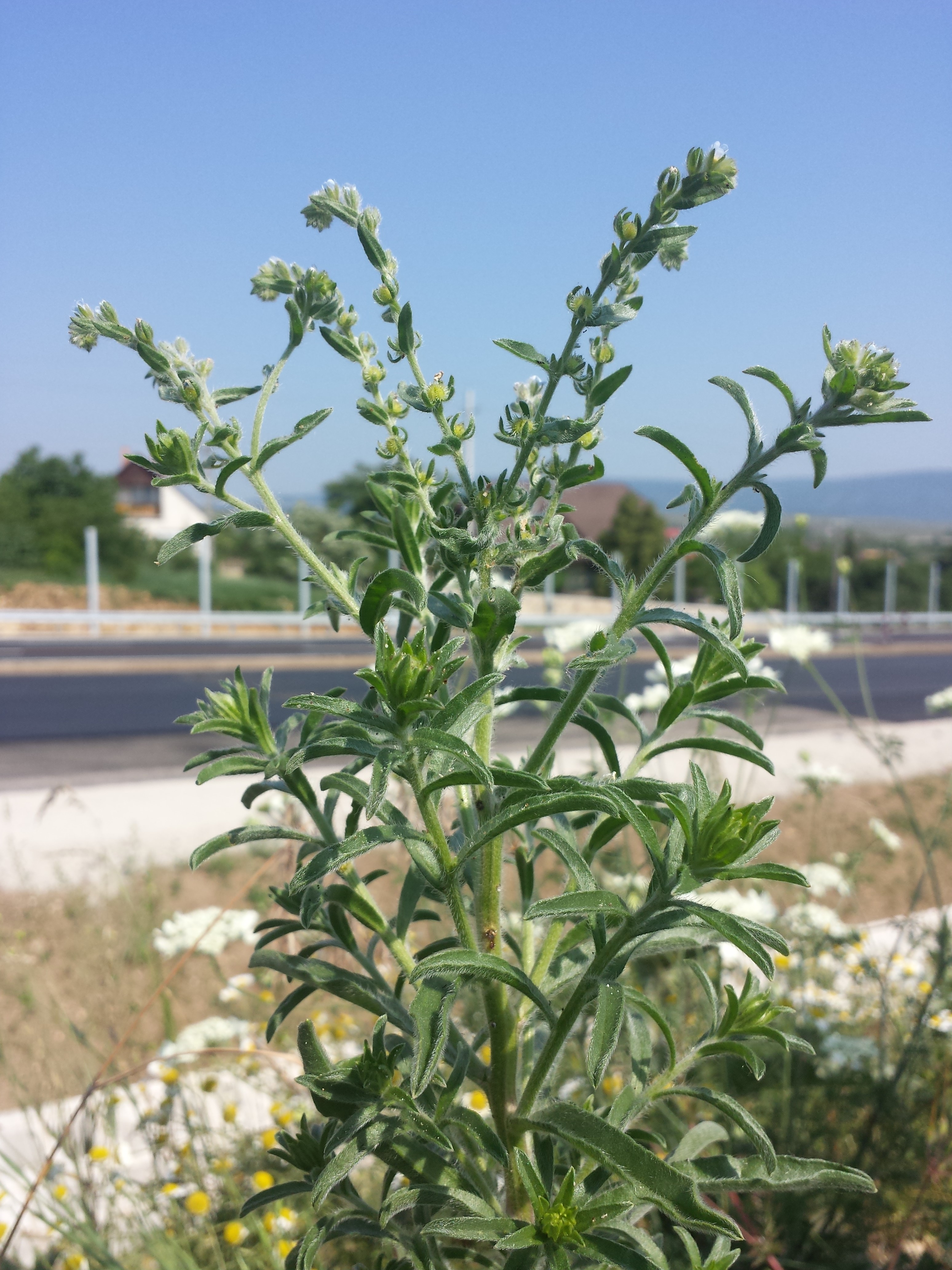 Habitus Taxonym: Lappula squarrosa s. str. ss Fischer et al. EfÖLS 2008 ISBN 978-3-85474-187-9; det. Gergely Király 2015-06-07 Location: Dolomite hills to the south of Öskü, Veszprém County, Hungary - ca. 200 m a.s.l. Habitat: slope